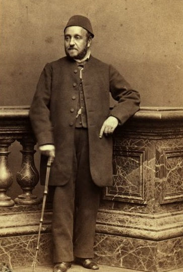 Mehmed Kâmil Pasha, also spelled as Kiamil Pasha (1833 – 14 November 1913), was an Ottoman statesman of Turkish Cypriot origin in the late-19th-century and early-20th-century.